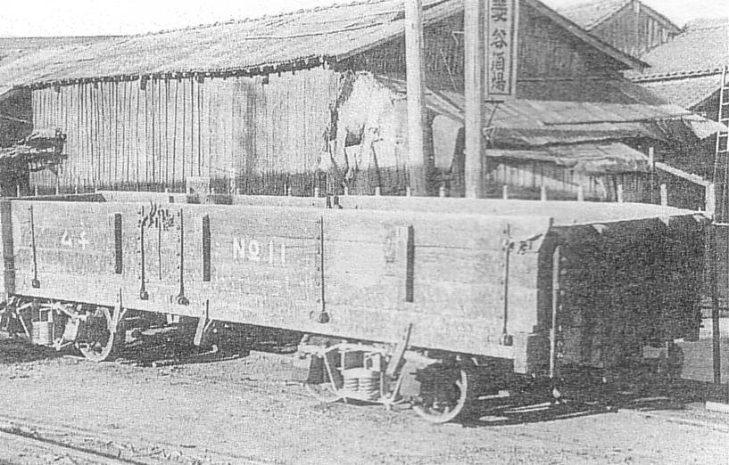 A freight car used in Asakura Tramway,"Muchi 11"